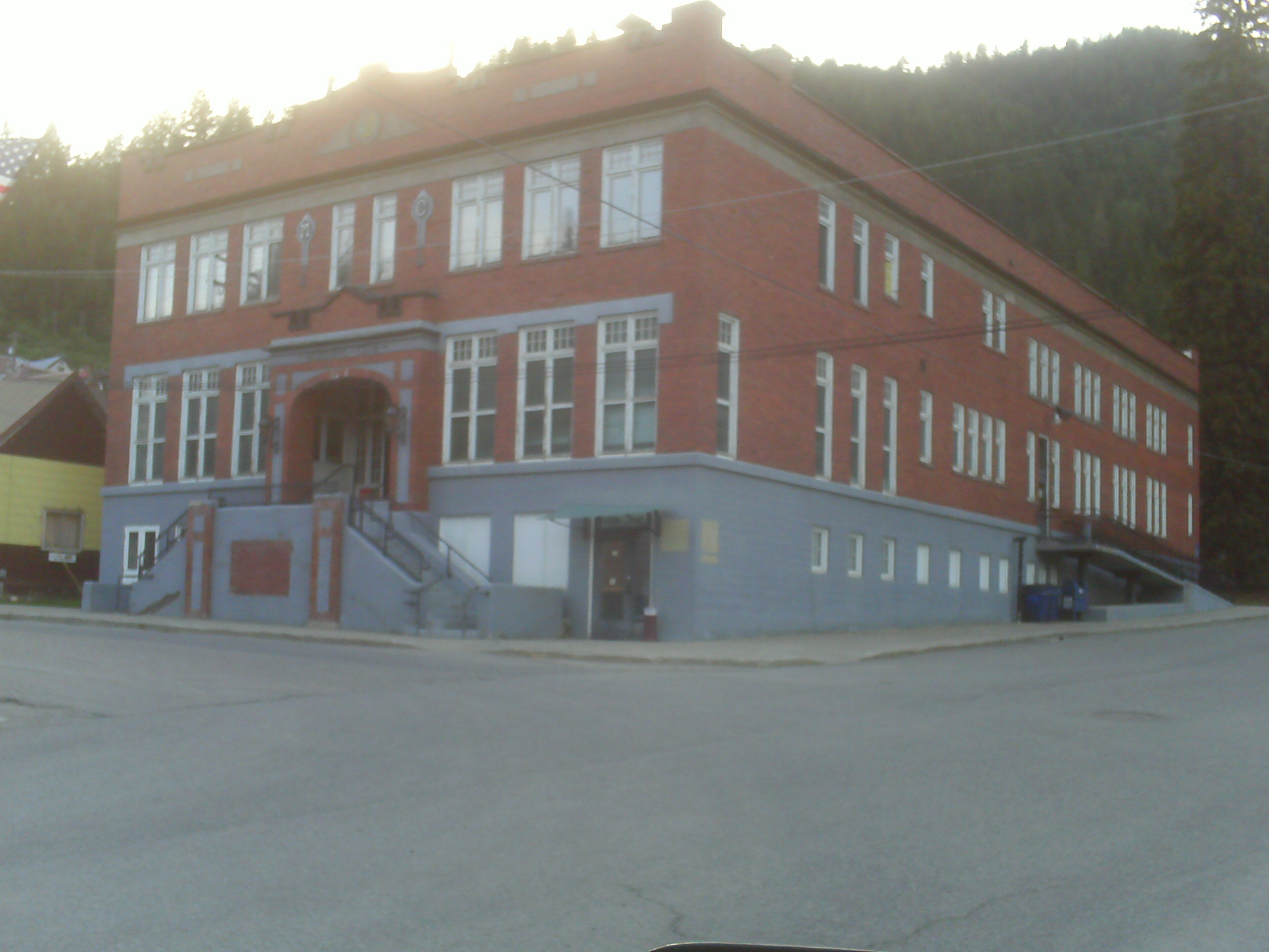 morning club built 1921 mullan idaho, restored and on historical registry.